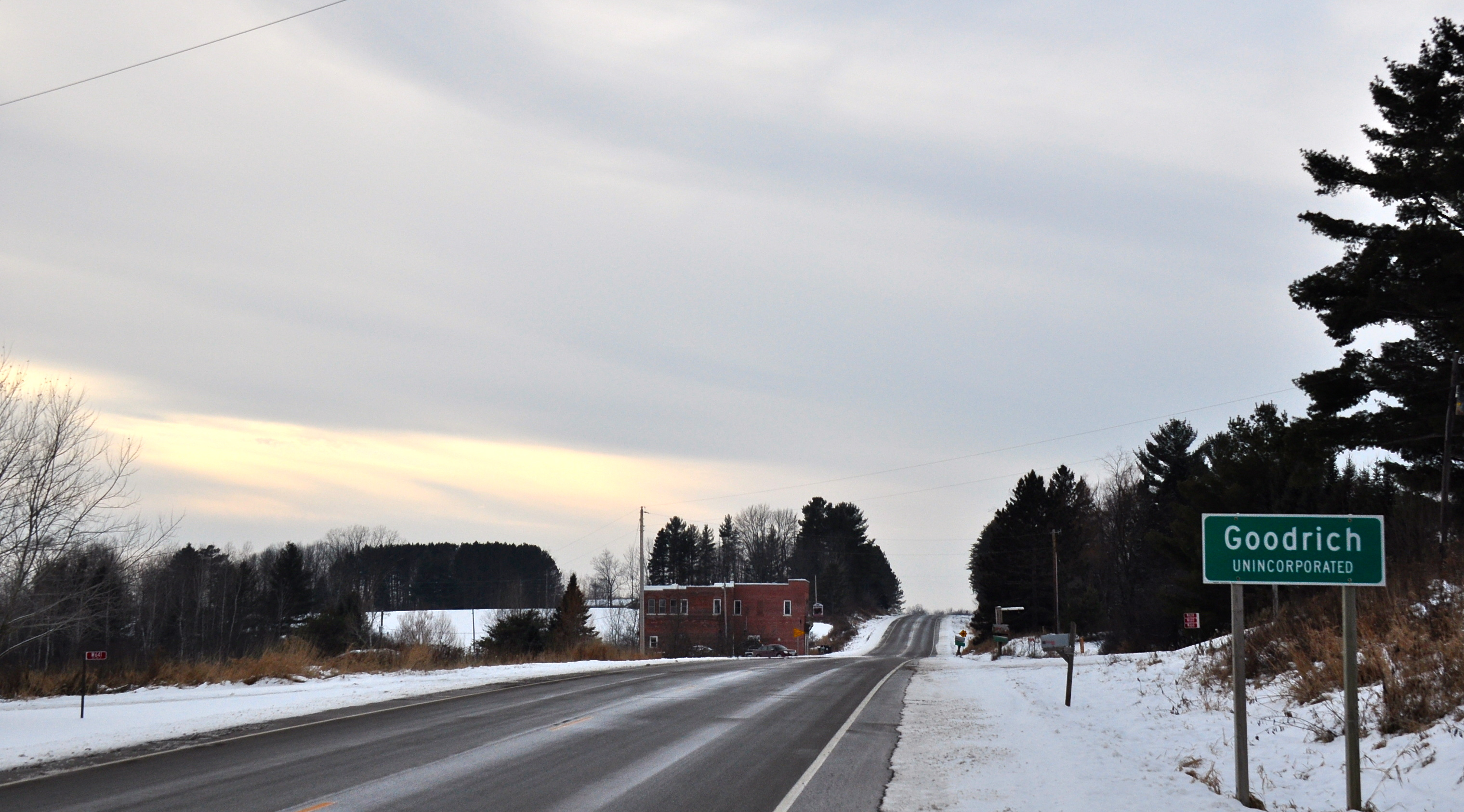 Entering Goodrich, Wisconsin while heading west on Wisconsin State Highway 64.